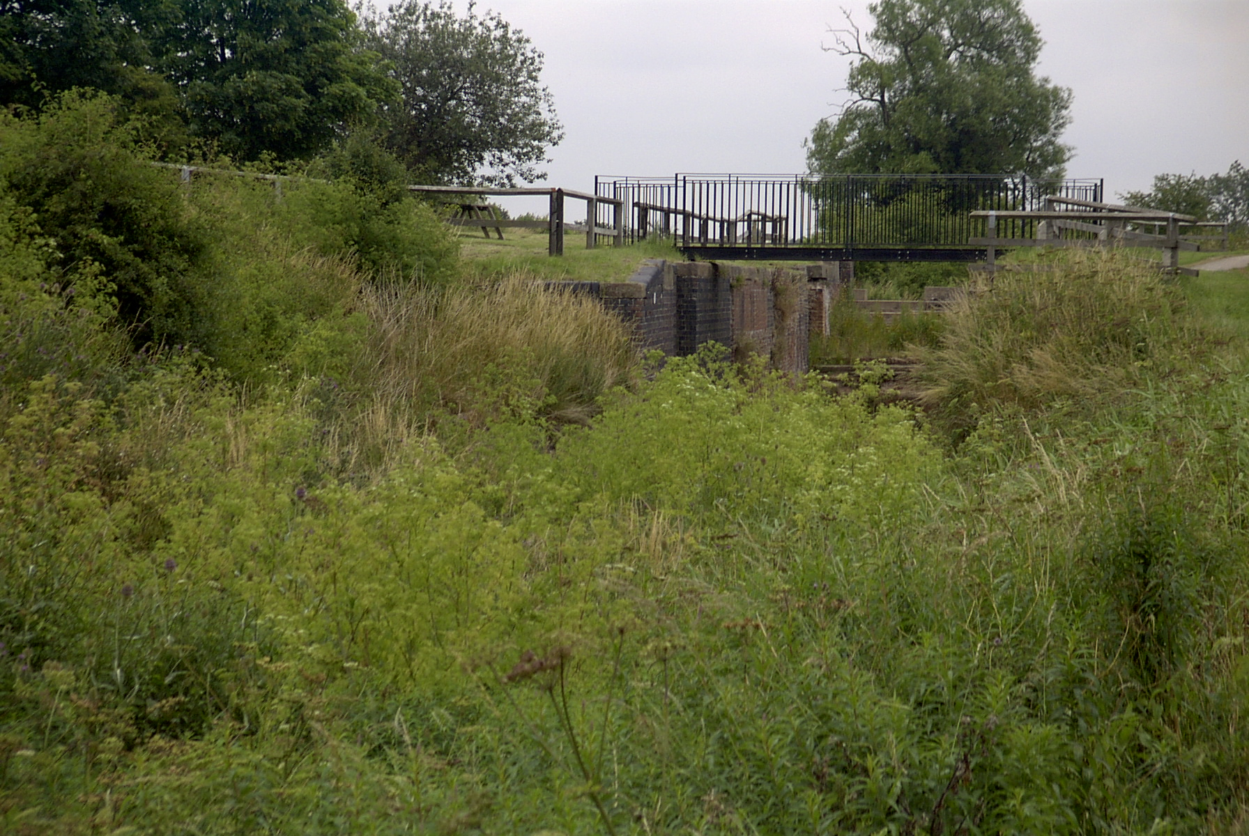 Rather overgrown section of the canal near Cropwell Bishop